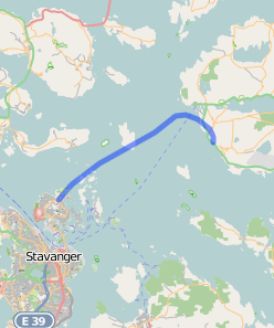 Ryfylketunnelen in Rogaland, Norway will be finished in 2018. The subsea tunnel will be 14.3 km long. This map may be incomplete, and may contain errors. Don't rely solely on it for navigation.